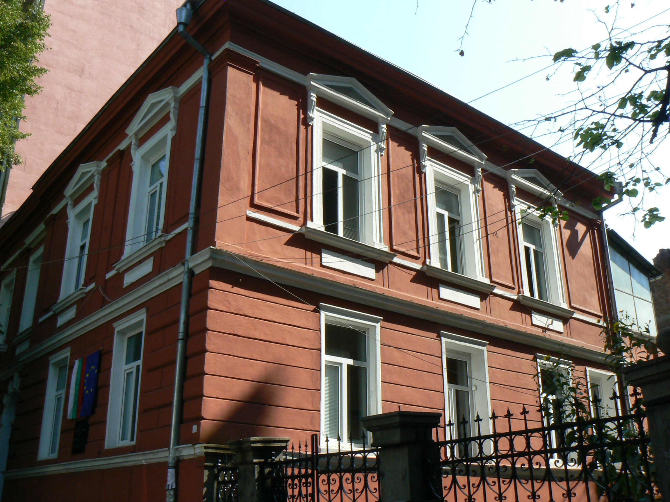 Building of the Art Studies Institute, Bulgarian Academy of Sciences, Sofia